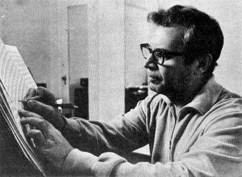 Composer Lester Trimble at the piano, New York ca, 1966